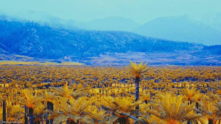 Pemandangan Alam Di Kwiyawage Papua